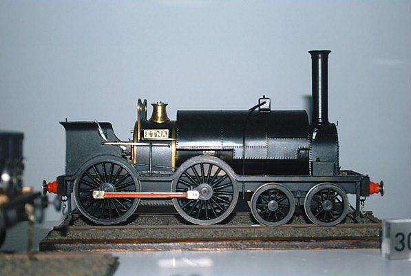 Model of broad gauge (7') Carmarthan and Cardigan Railway 4-4-0ST "Etna"of 1864; later sold to the South Devon Railway which in 1876 became part of the GWR when "Etna" was numbered 2132. At the Swansea Maritime Museum, 06/10.